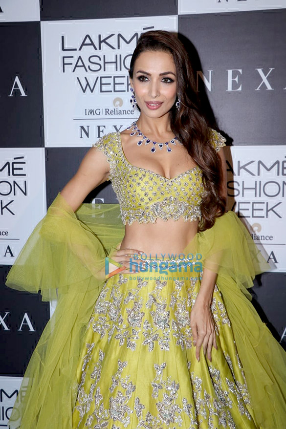 Malaika Arora graces Lakme Fashion Week 2018 – Day 4